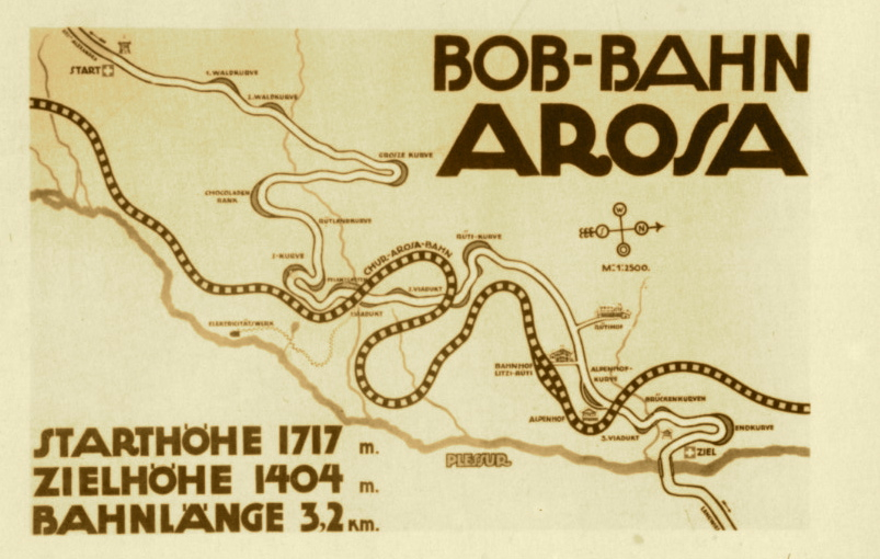 map of bobsleigh and luge run Arosa, Switzerland